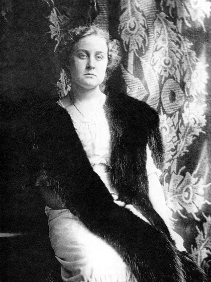 Varvara Bulgakova - sister of Russian writer Mikhail Bulgakov